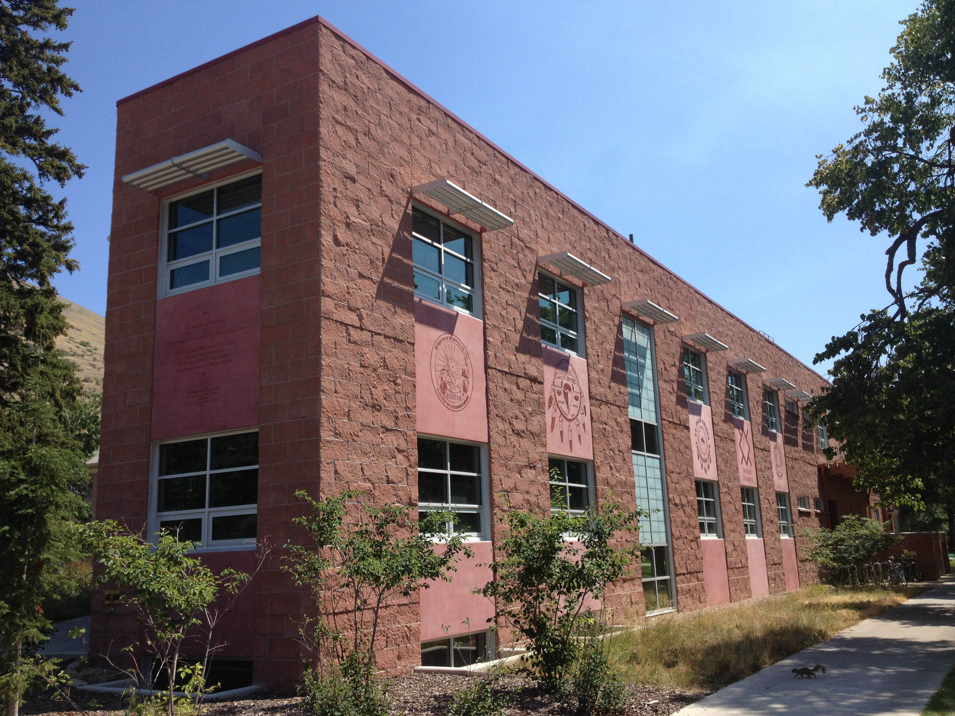 The Payne Family Native American Center on the University of Montana campus in Missoula, Montana, a building which has earned the LEED Platinum Certification. Photographed July 25, 2013.